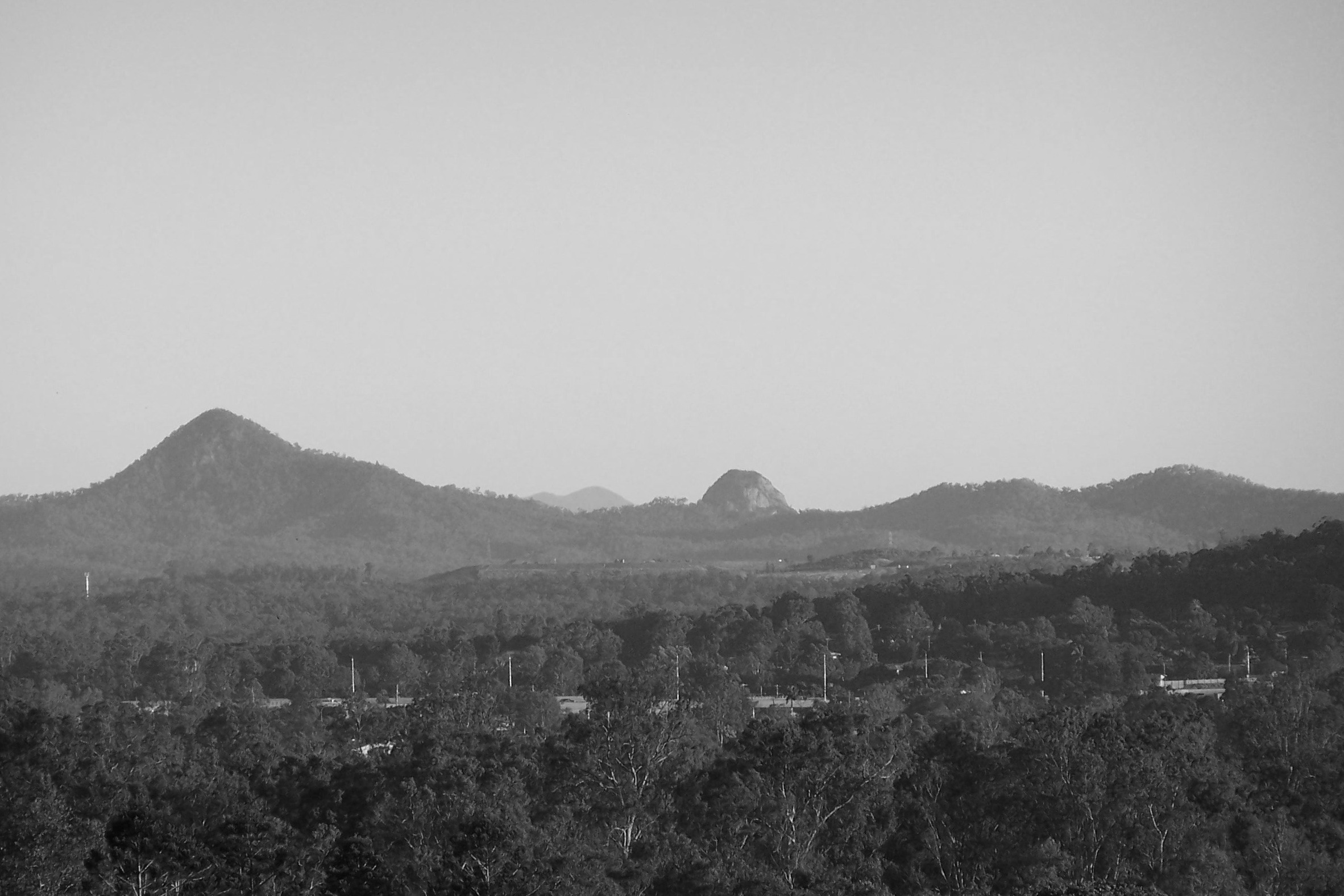 Northern section of Flinders-Goolman Conservation Estate. From left to right: Mt Goolman, Ivory's Rock and Rocky Knoll.